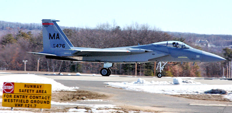 131st Fighter Squadron - McDonnell Douglas F-15C-21-MC Eagle 78-0476